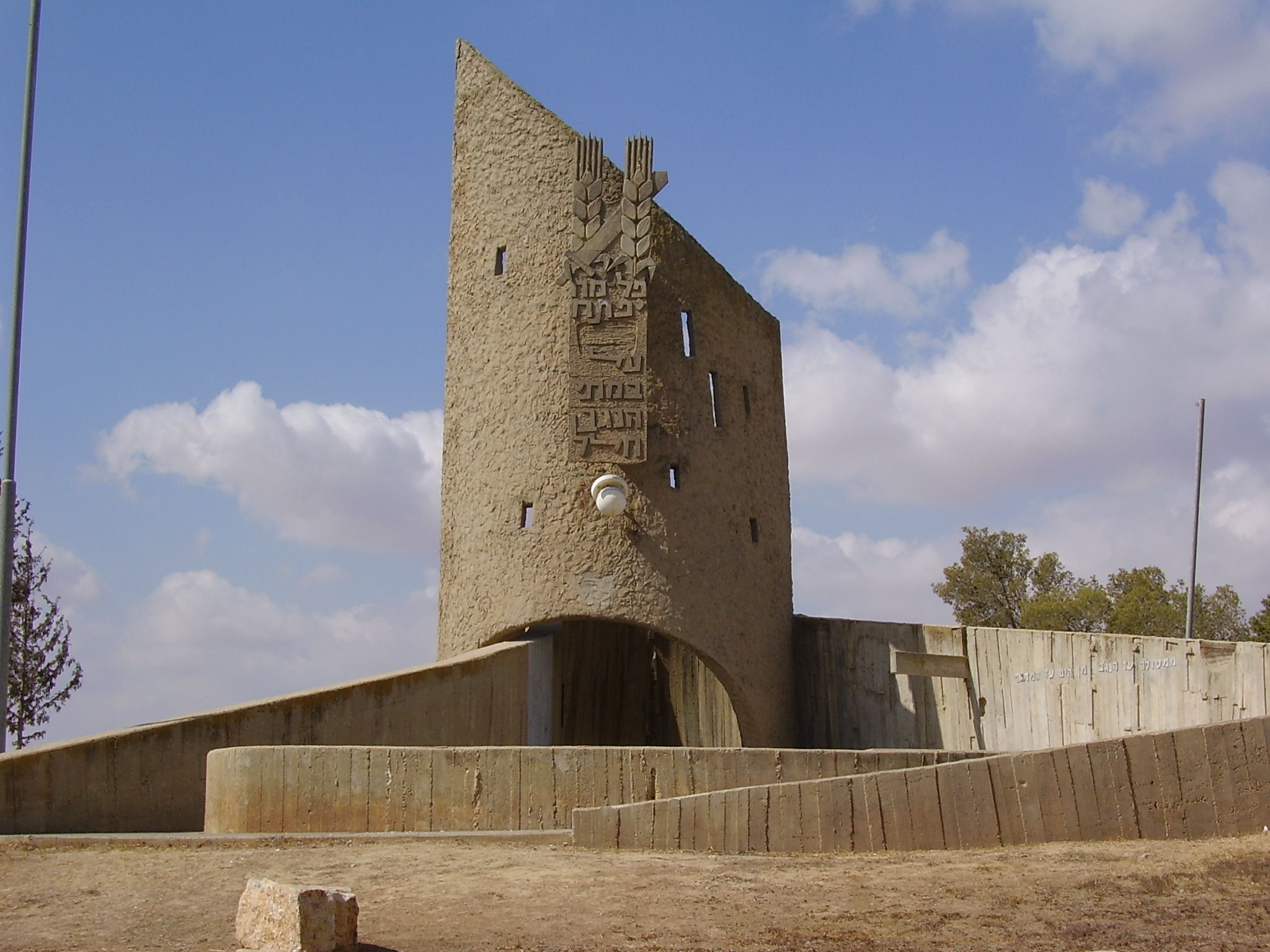 yiphtach brigade memorial in the negev, israel אנדרטת חטיבת יפתח בנגב